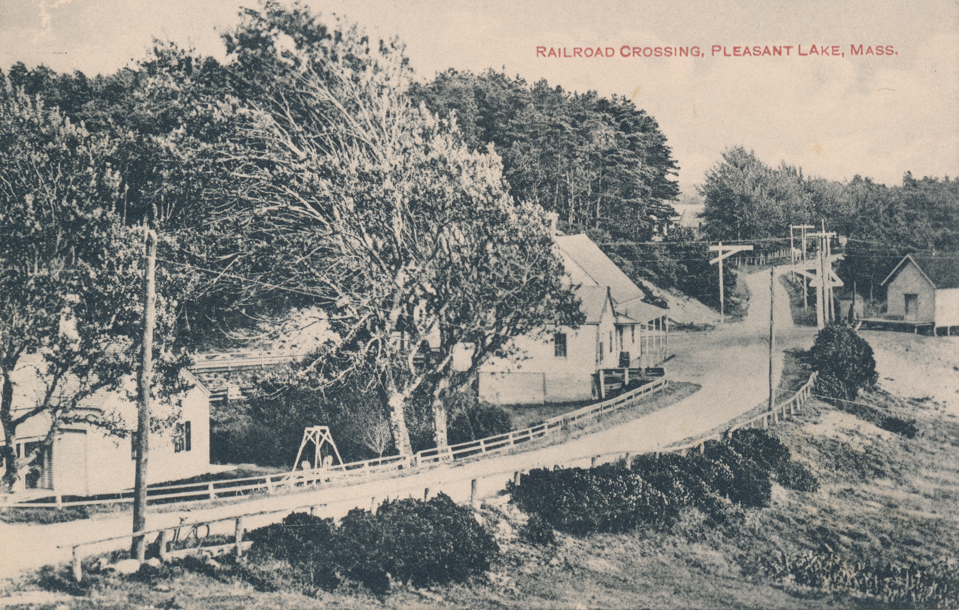 An early postcard showing the railroad crossing in Pleasant Lake, Massachusetts.